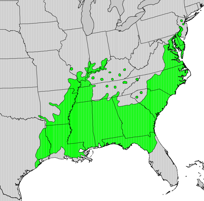 Range map of Quercus michauxii